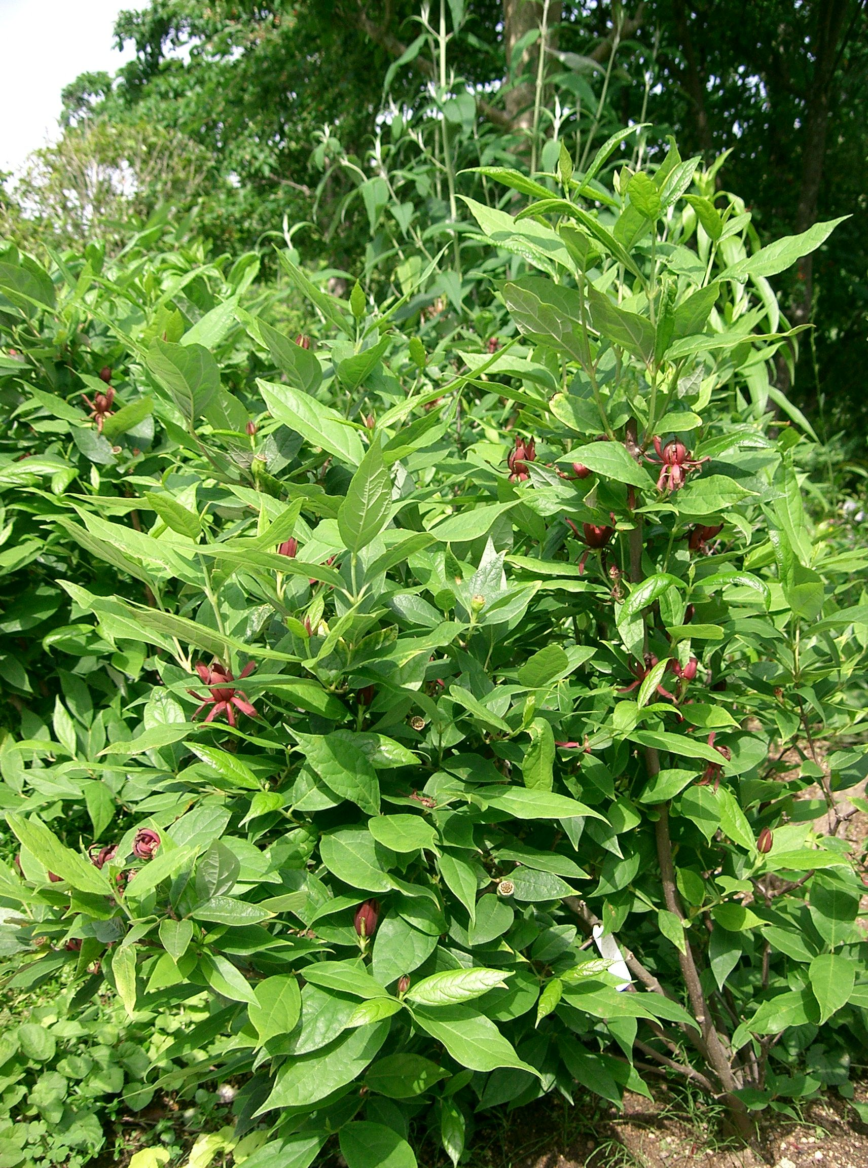 Calycanthus floridus